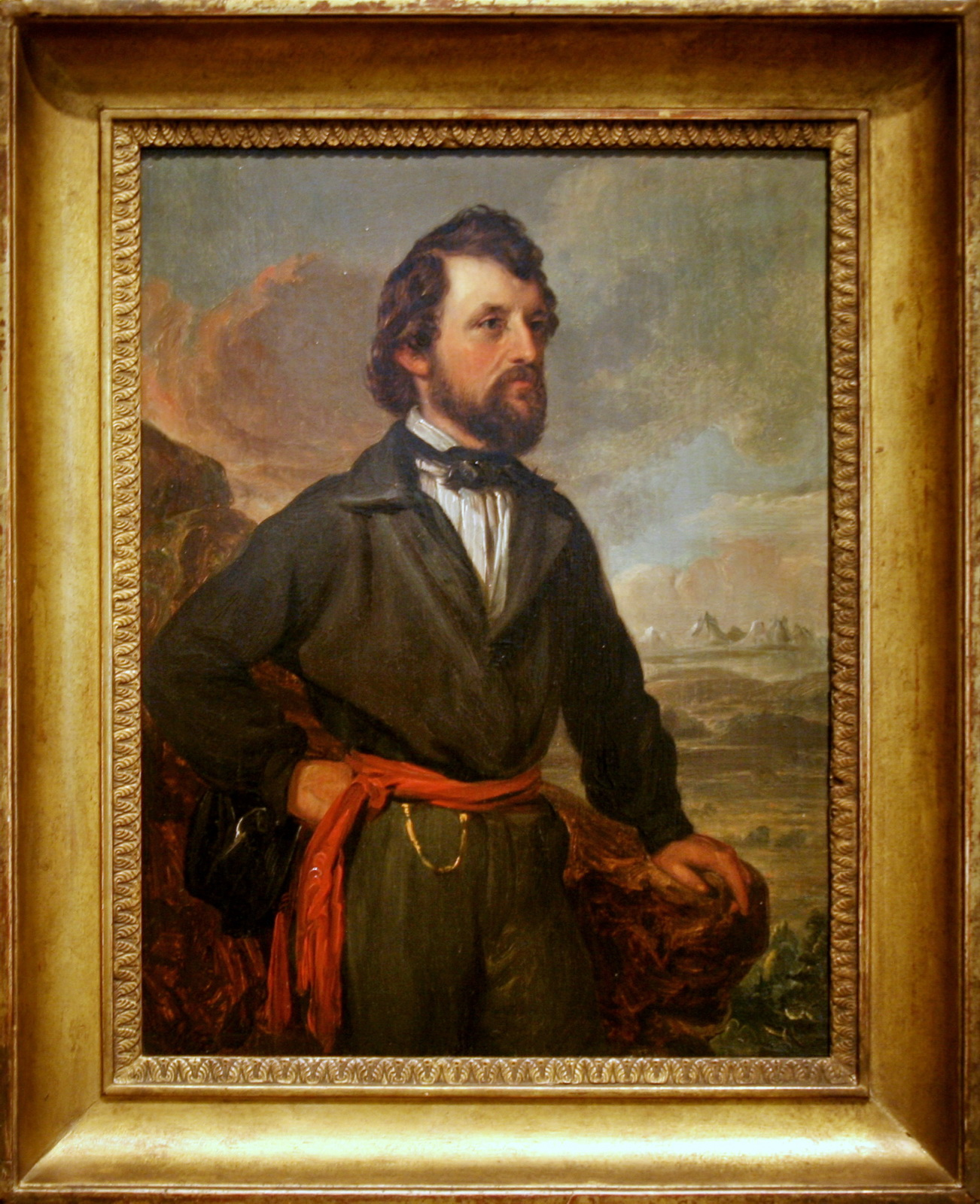 Oil on canvas portrait of John C. Frémont; original size without frame 37.8×28 cm.